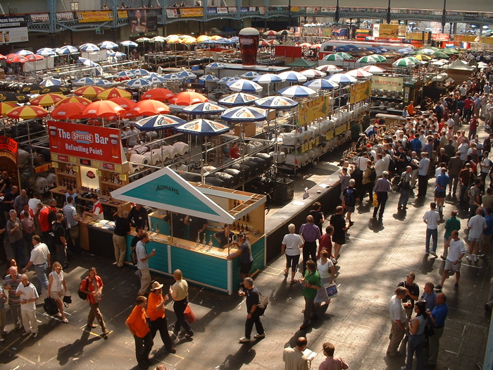 Another view of the 2004 Great British Beer Festival taken from the other side of the balcony.